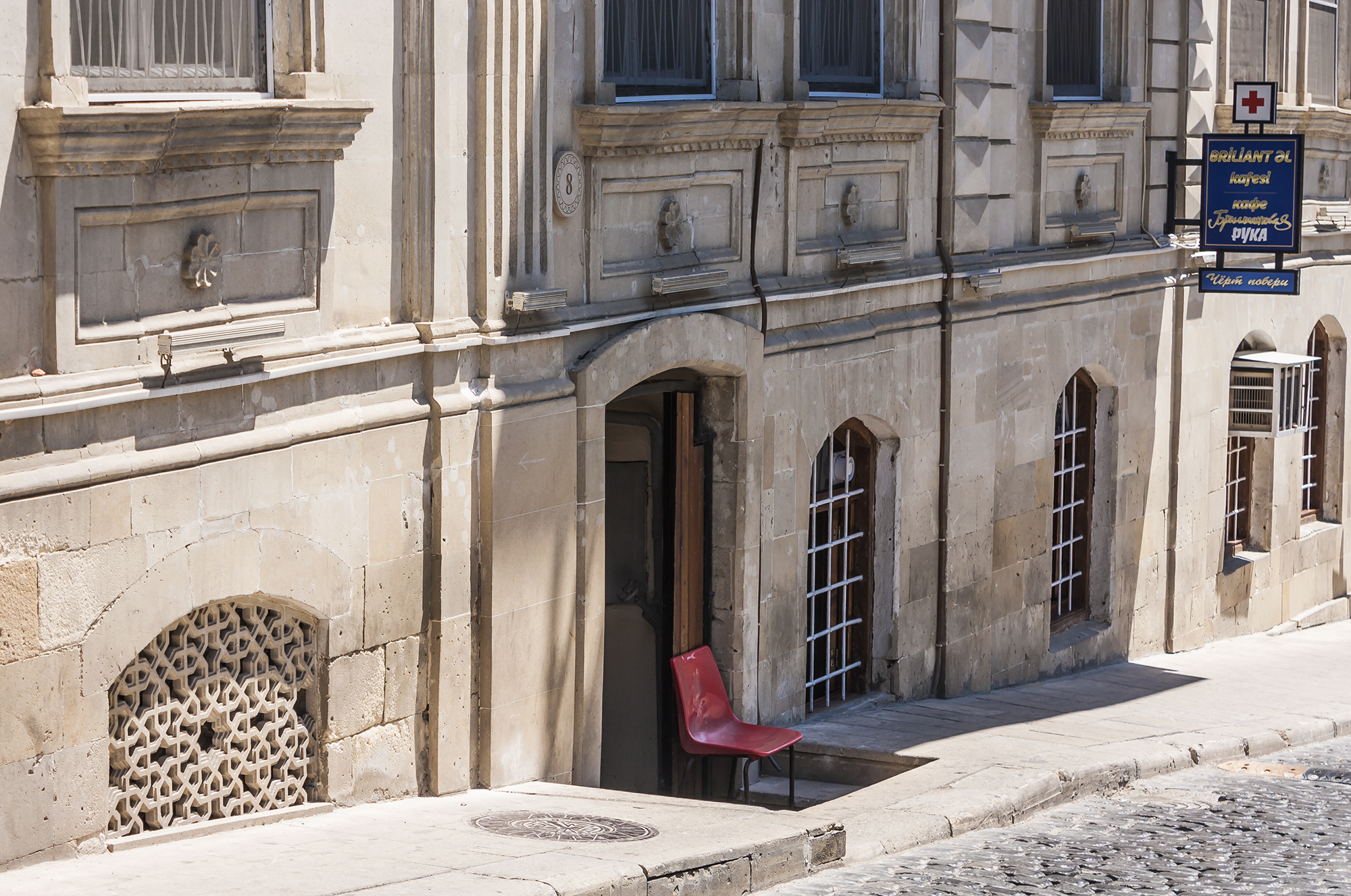 Apteka Chikanuk from The Diamond Arm in Baku, Azerbaijan.